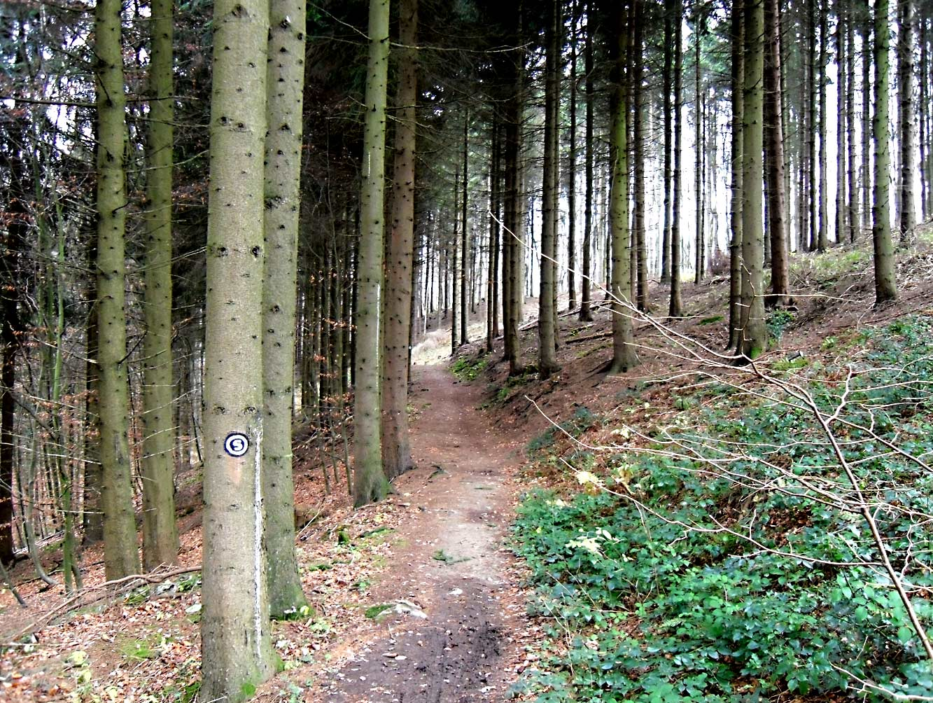 Marked route "a blade Track" round Solingen.